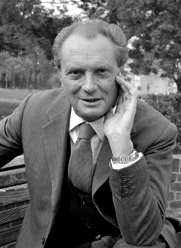 The Italian poet and writer Vittorio Sereni, seated on a park bench. Milan, 1975.